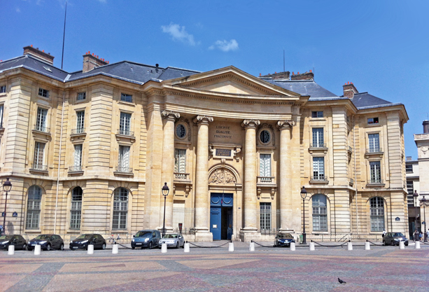 Pantheon-Assas University, on place du Panthéon.